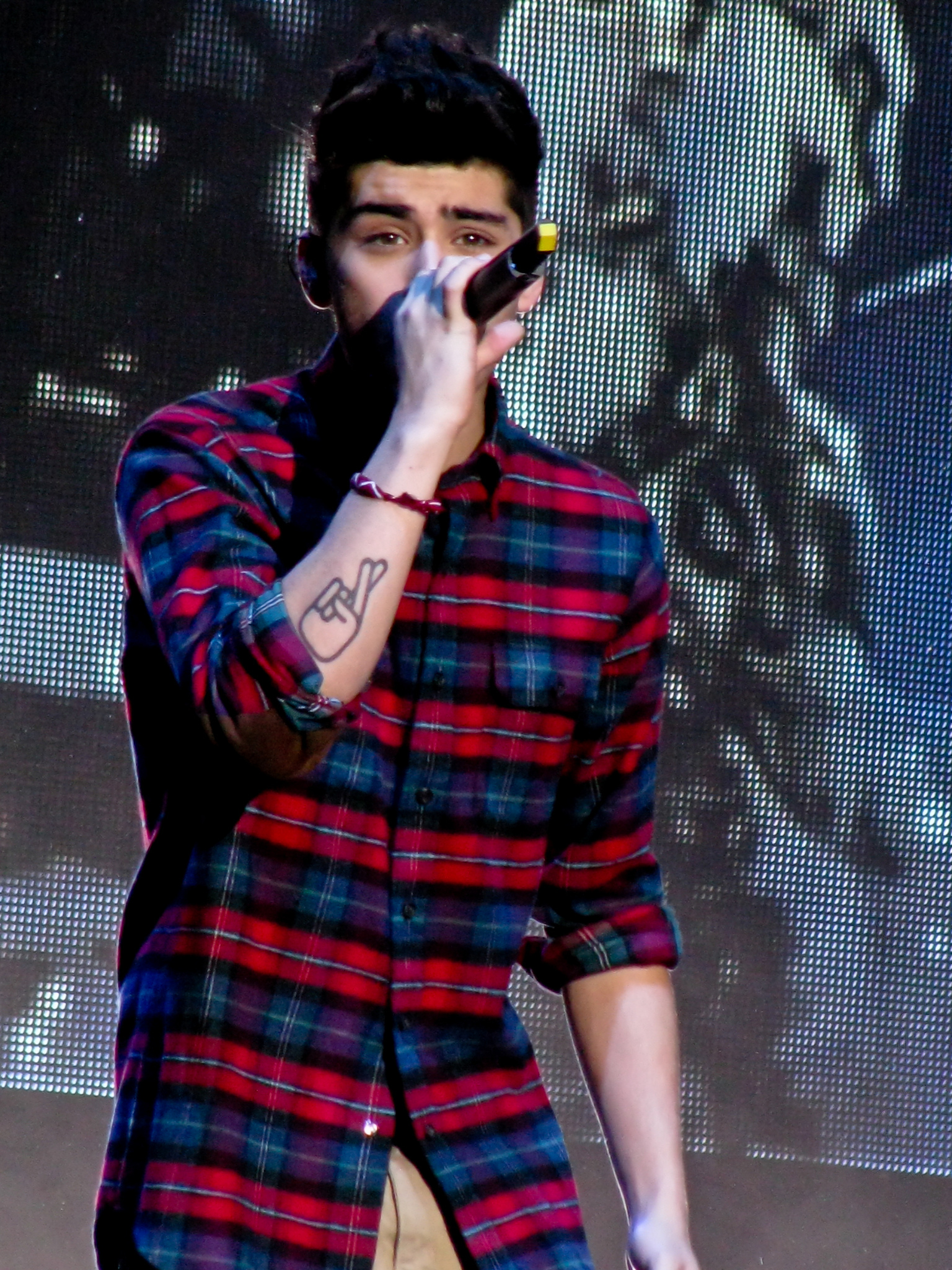 One Direction, Molson Canadian Amphitheatre, Toronto, Ontario, May 29, 2012